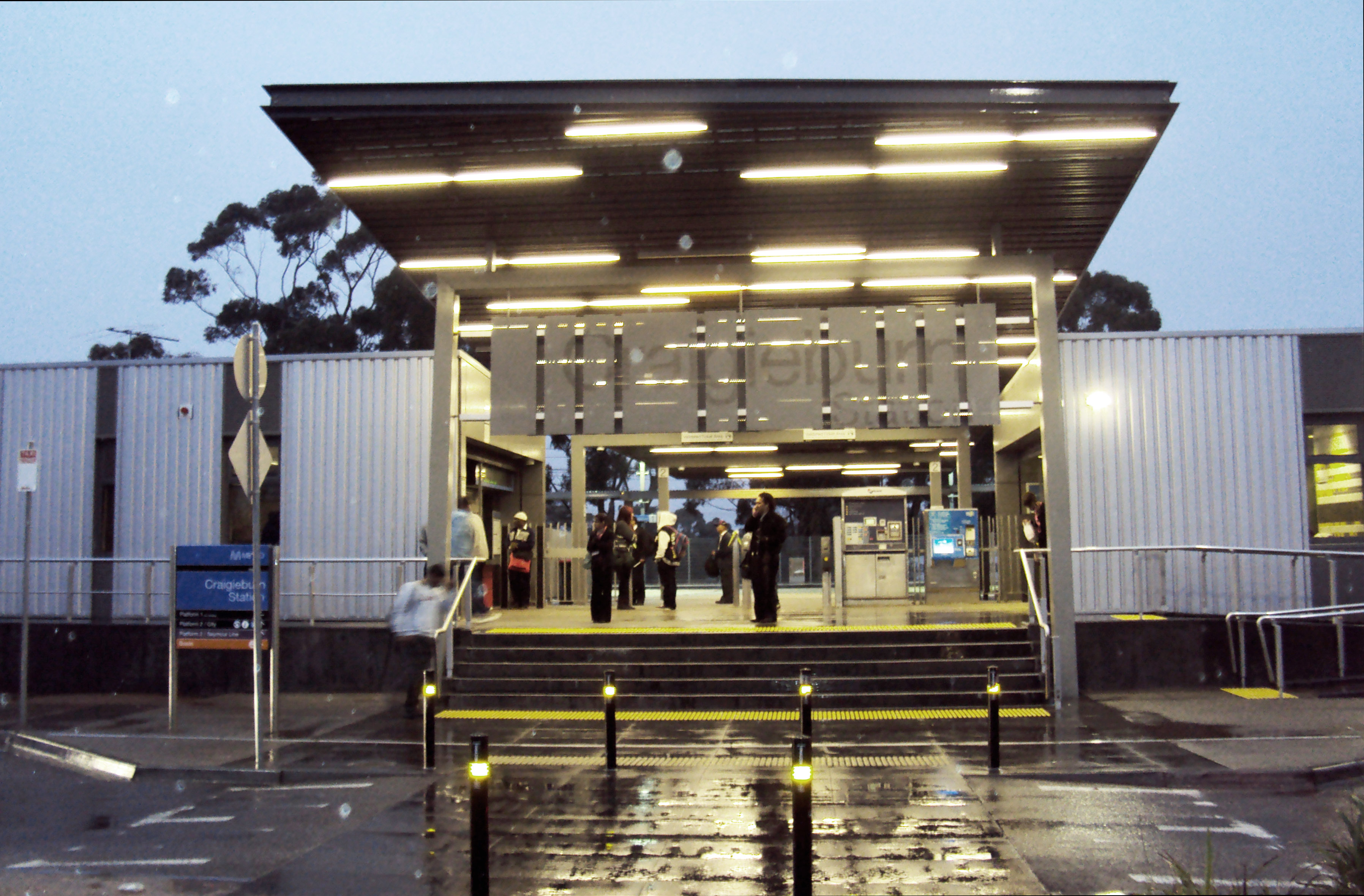 Craigieburn train station, Victoria, Australia. Front facade.